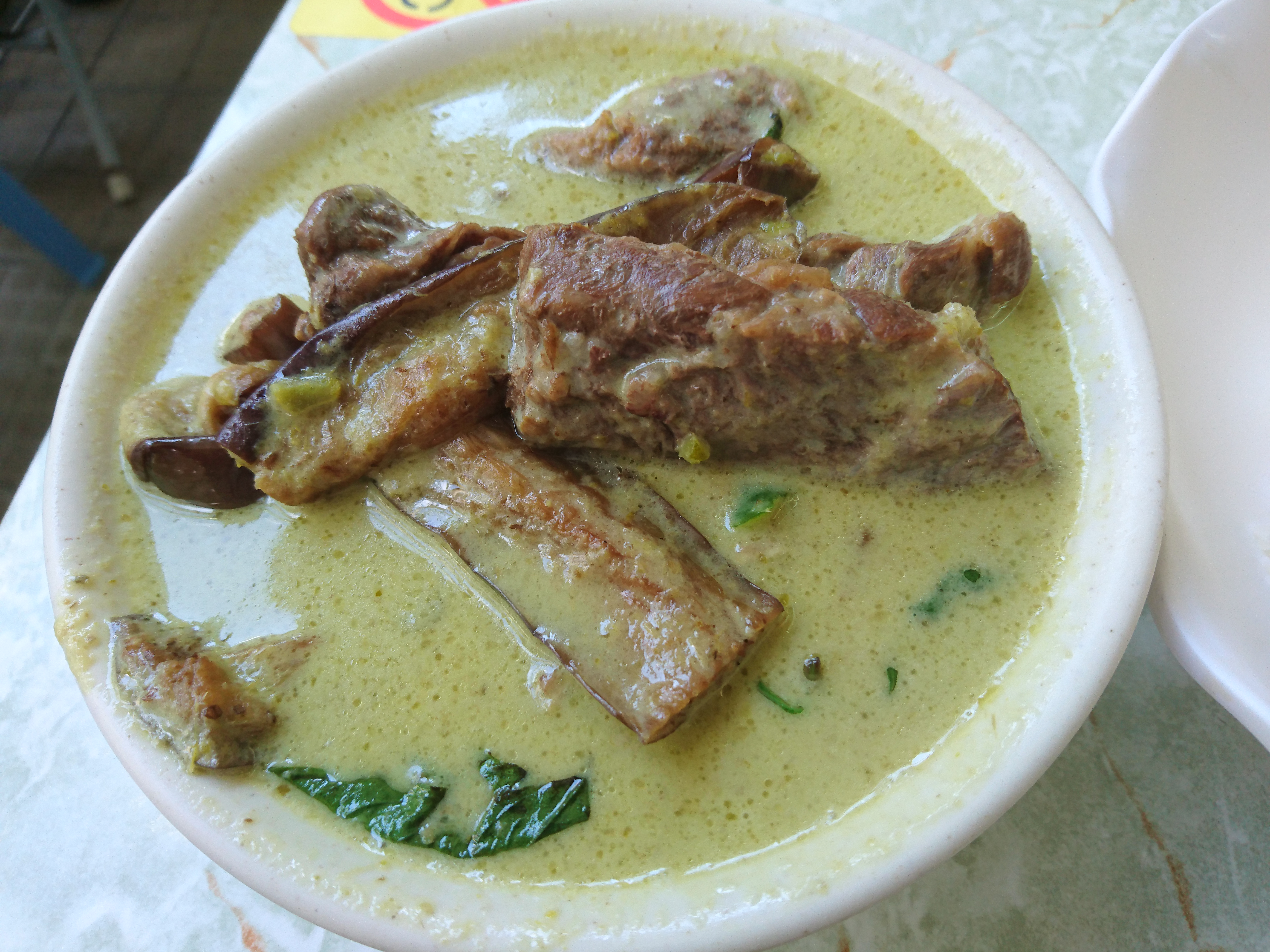 Thai Style Green Curry Beef Brisket in Hong Kong